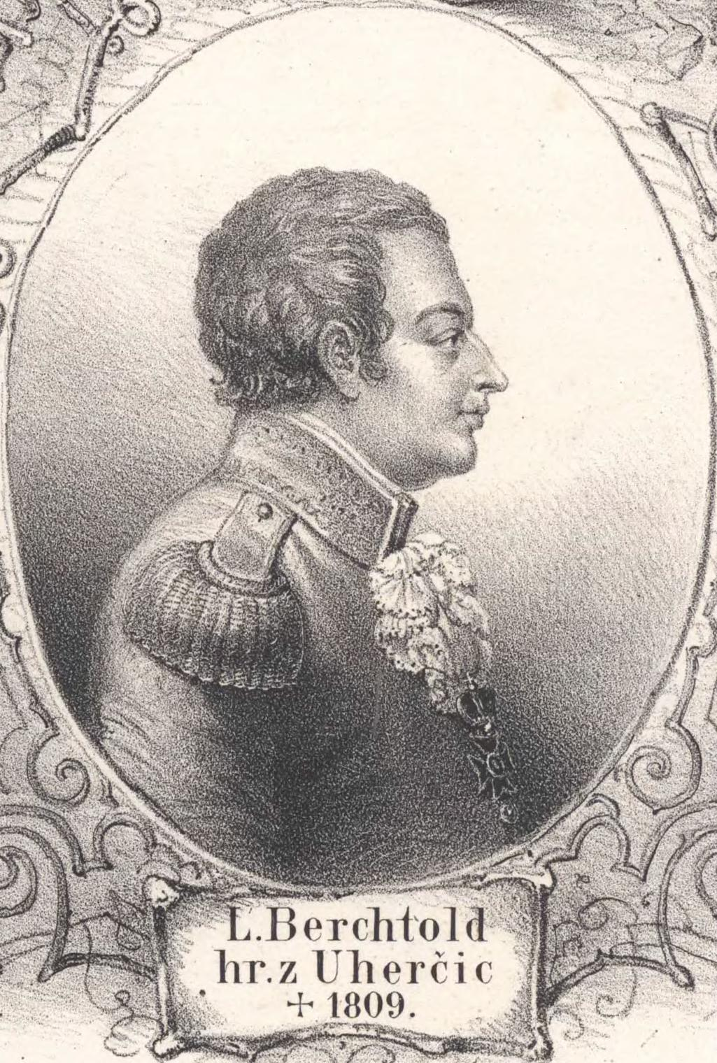 Portrait of Leopold I. Berchtold (1759 - 1809; full name: Leopold I. František Xaver Antonín hrabě Berchtold z Uherčic), Moravian nobleman, traveller, scholar and philantropist.